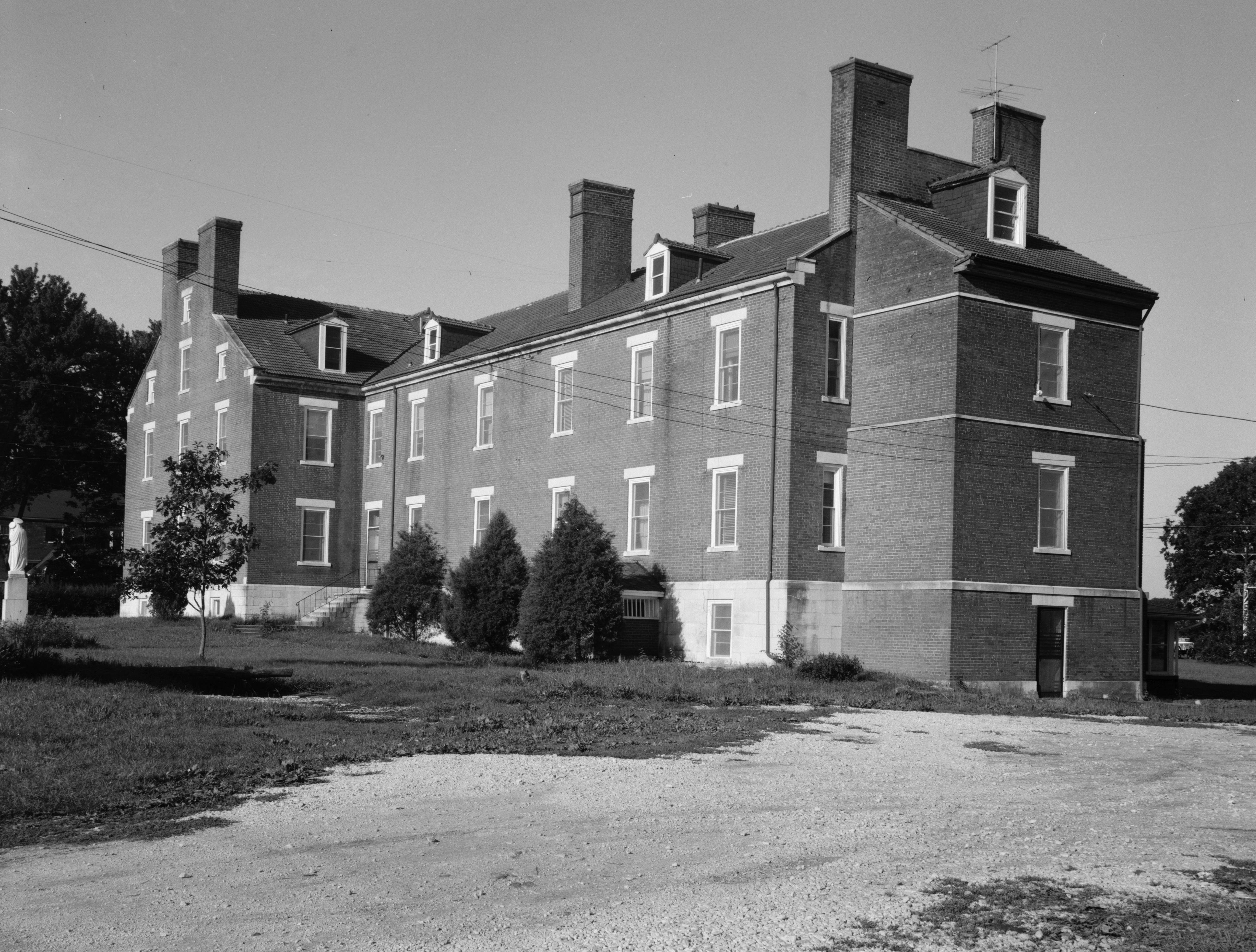 Front of the South Union Shaker Center Dwelling House, located along U.S. Route 68 in Logan County, Kentucky, United States. Built in 1822, the house is listed on the National Register of Historic Places, and it is part of the South Union Shakertown Historic District, a historic district that is also listed on the Register.